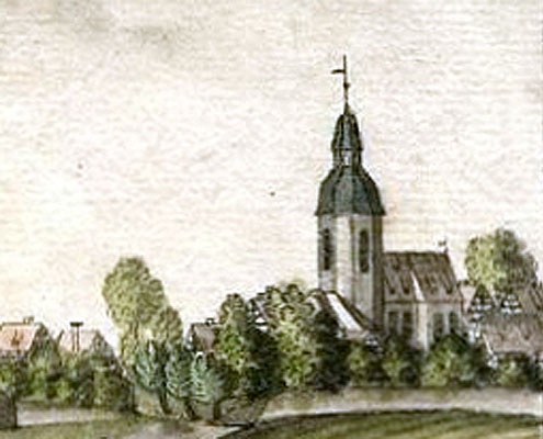 Old Church in Leipzig-Schönefeld (excerpt from Weg von Leipzig nach Schoenefeld 1780.jpg)